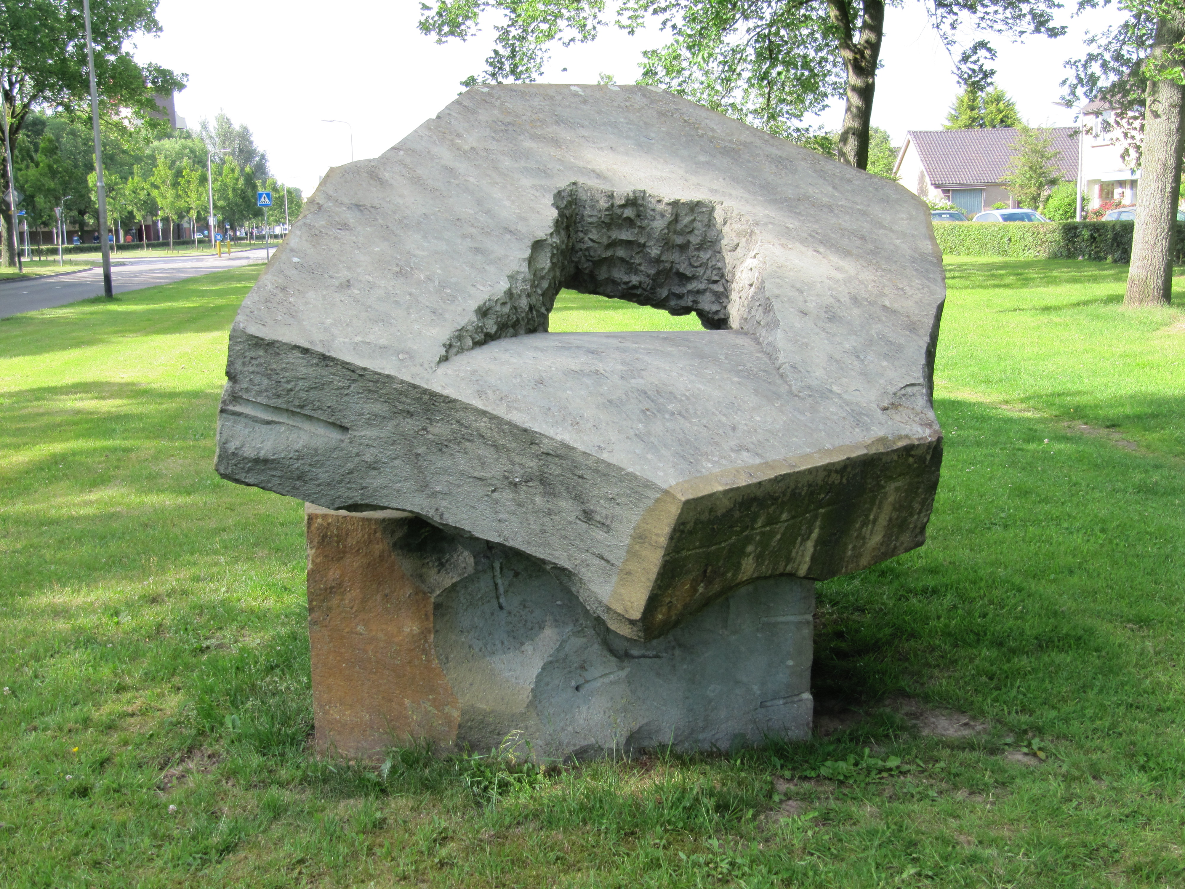 Sculpture "Hellend vlak" by Jan Timmer in the park next to the Holkerweg in Amersfoort, The Netherlands